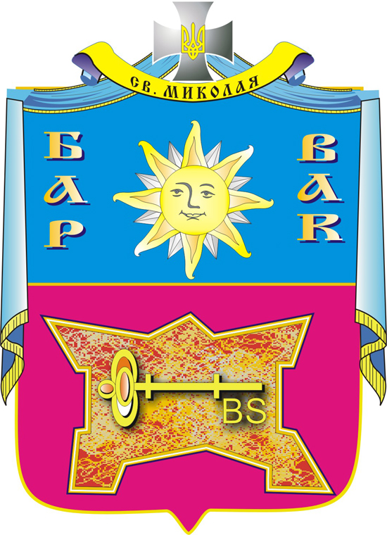 Coat of Arms Bar(city), Ukraine